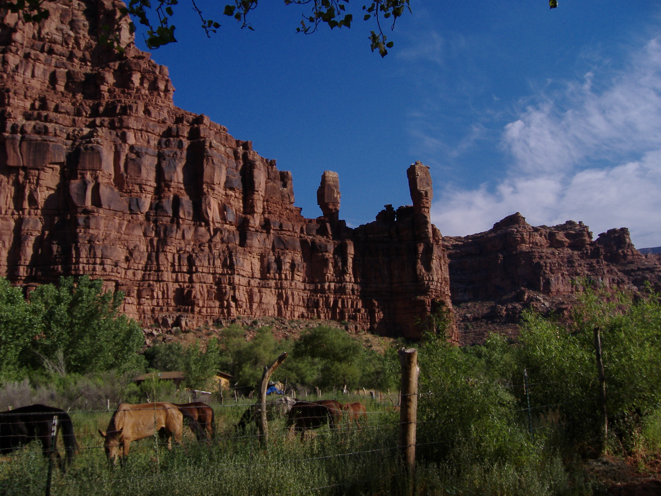 The Watchers overlooking Supai, AZ